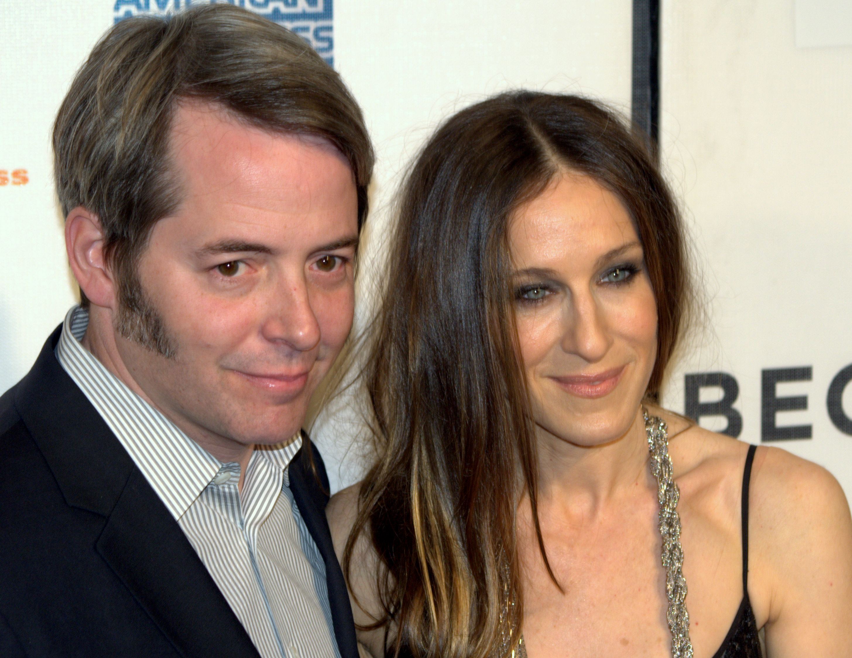 Matthew Broderick and Sarah Jessica Parker at the 2009 Tribeca Film Festival for the premiere of Wonderful World. Photographer's blog post about these photos.